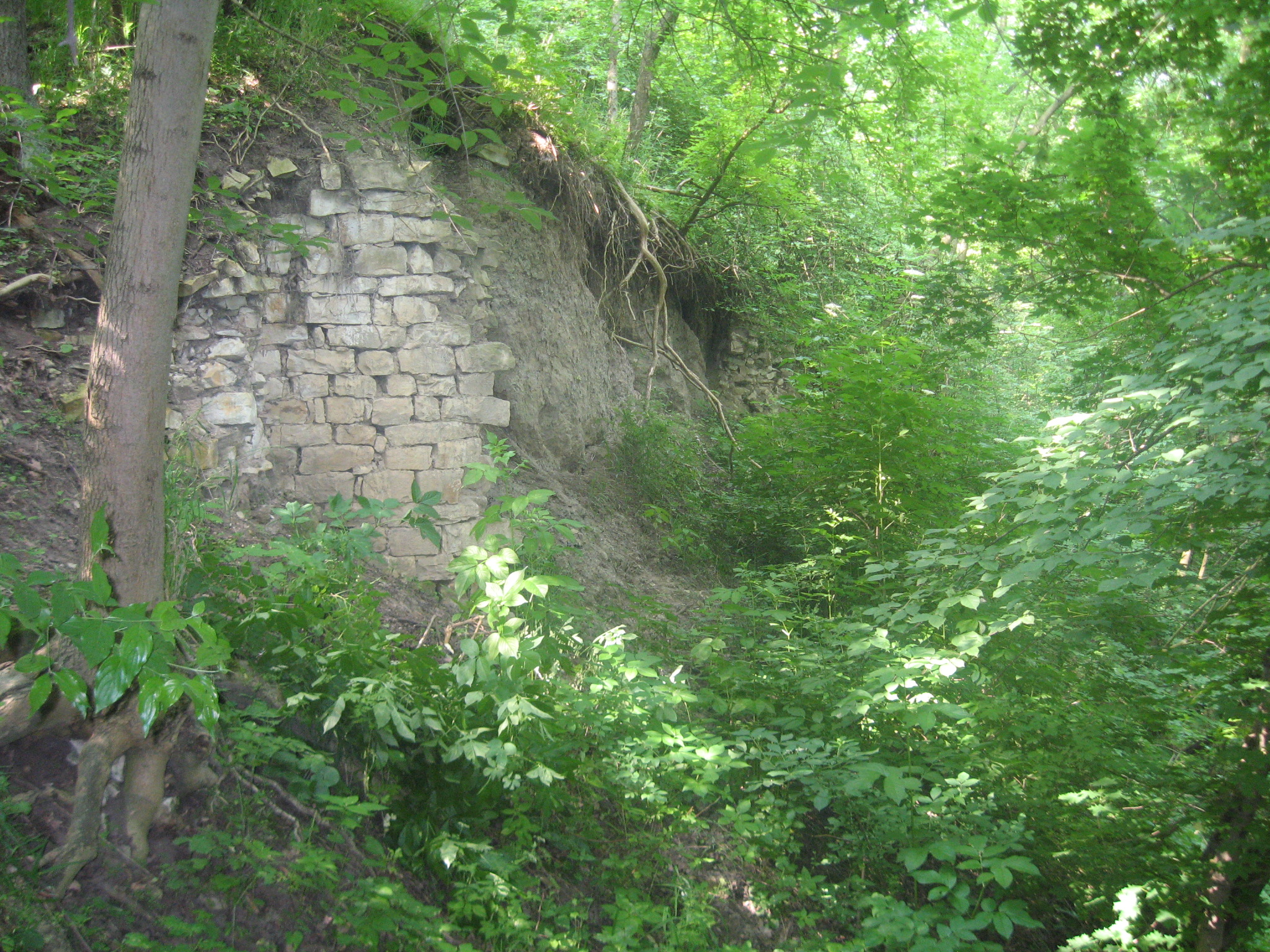 Šebín Castle - Rest of the Bulwark